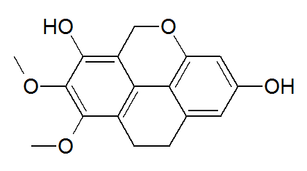 Chemical structure of coelogin